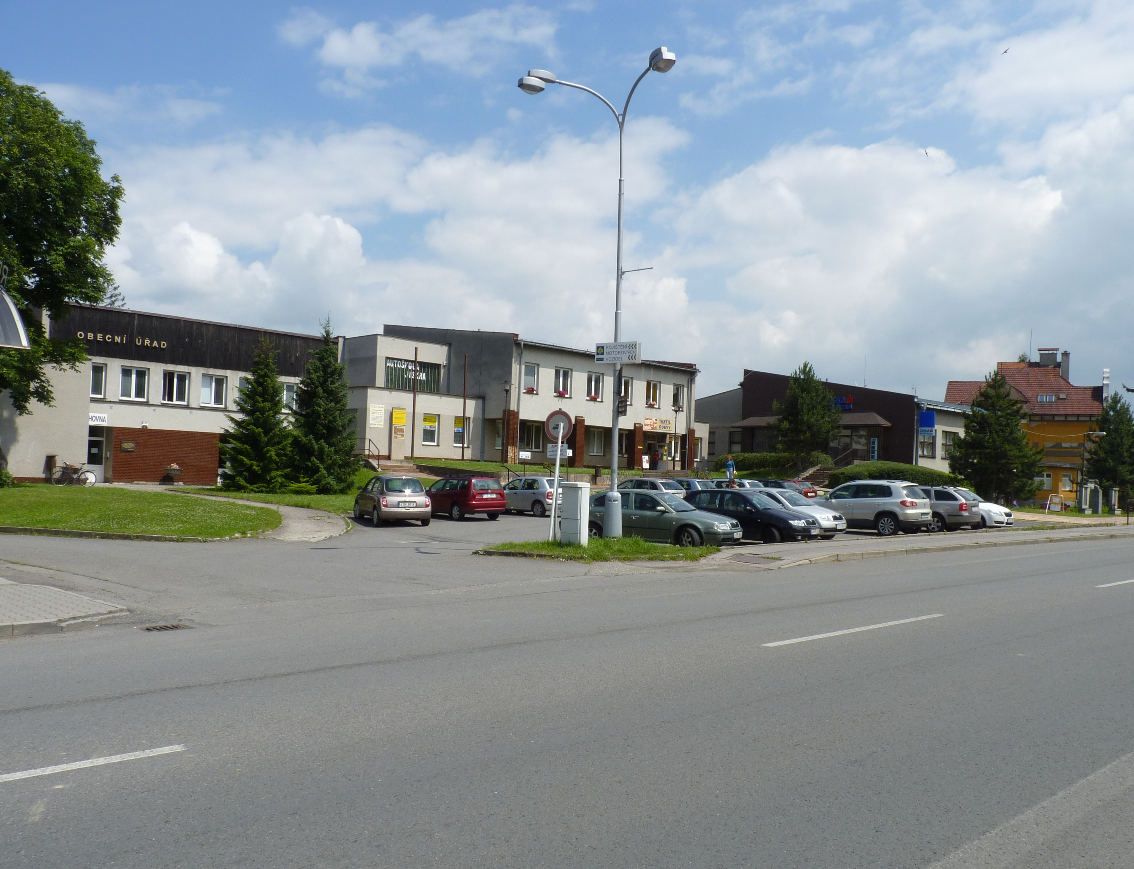 Dobrá. Frýdek Místek District, Moravian-Silesian Region, Czech Republic